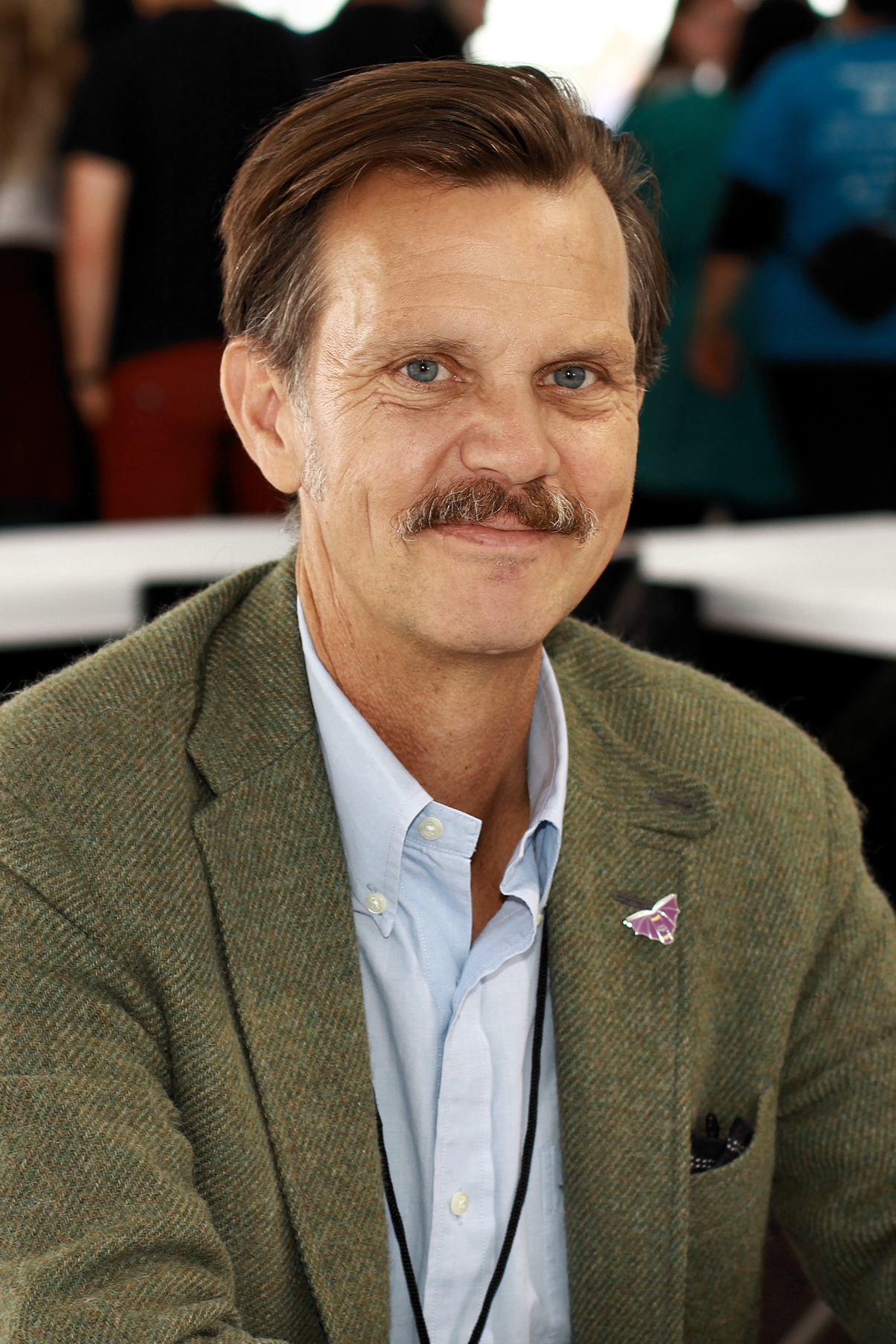 Author Christopher Brown at the 2019 Texas Book Festival in Austin, Texas, United States.